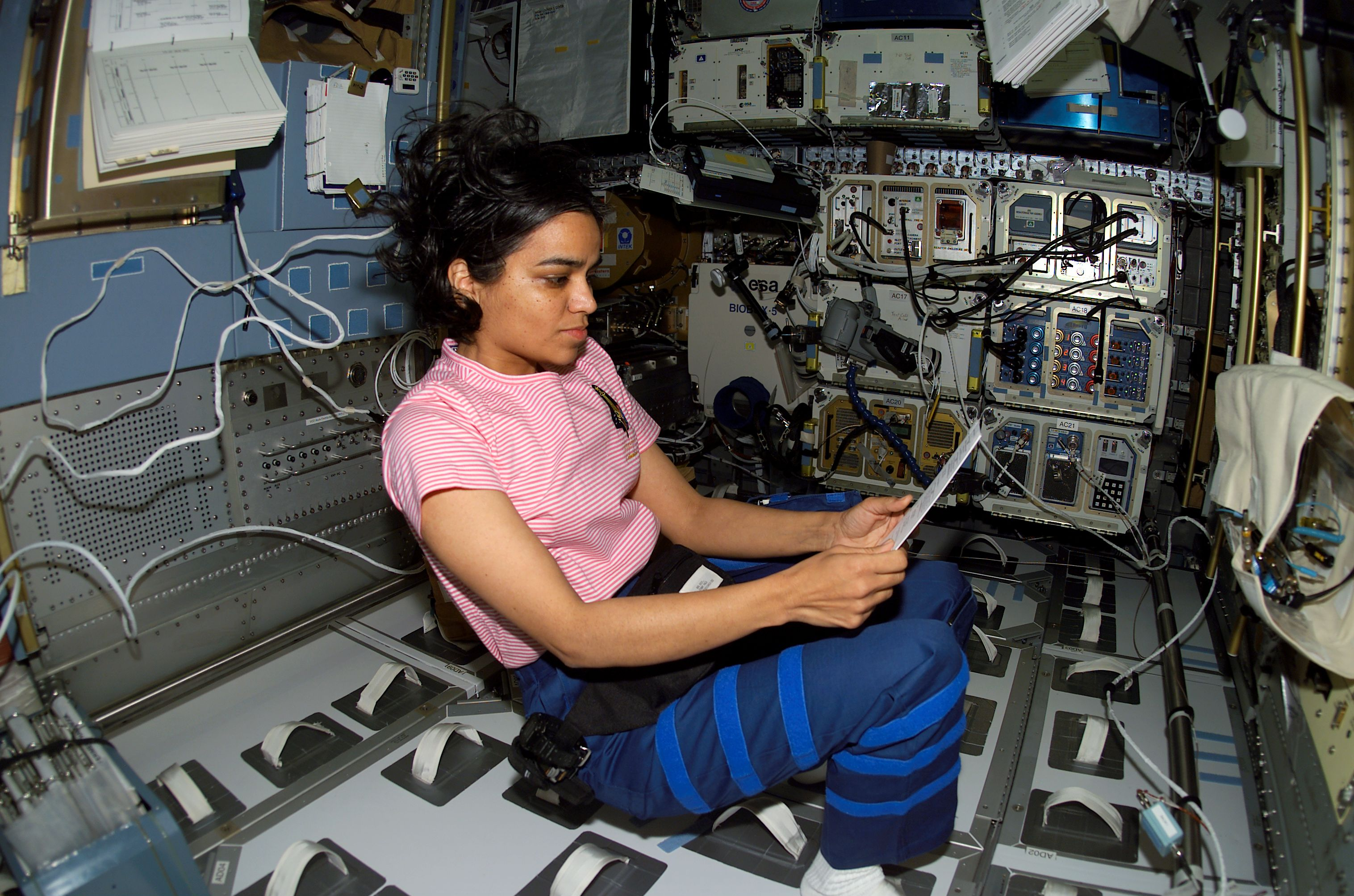 Astronaut Kalpana Chawla (1961 † 2003), STS-107 mission specialist, looks over a procedures checklist in the SPACEHAB Research Double Module aboard the Space Shuttle Columbia.